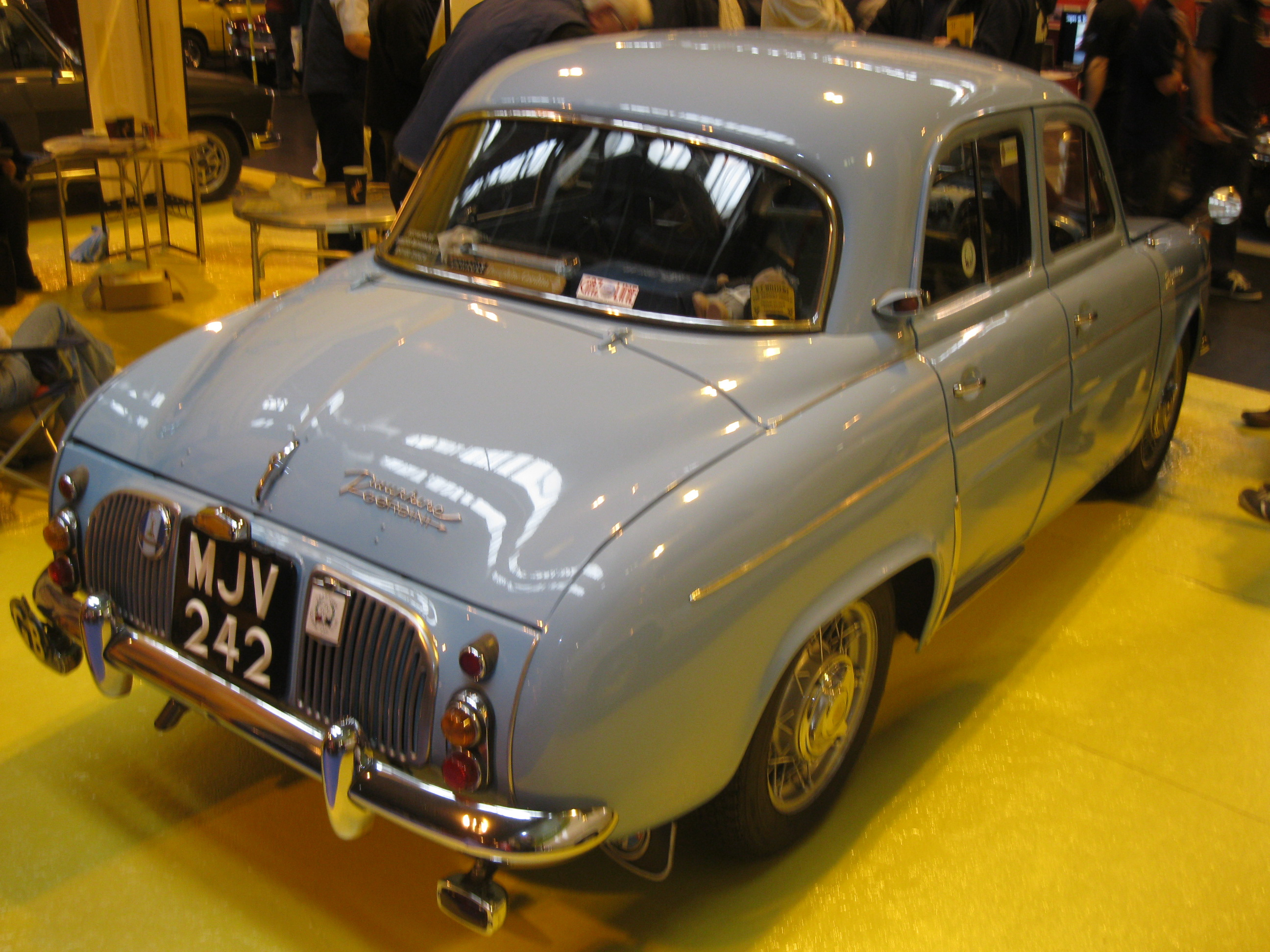 Exhibited at the NEC Birmingham Classic Car Show November 15-17, 2013